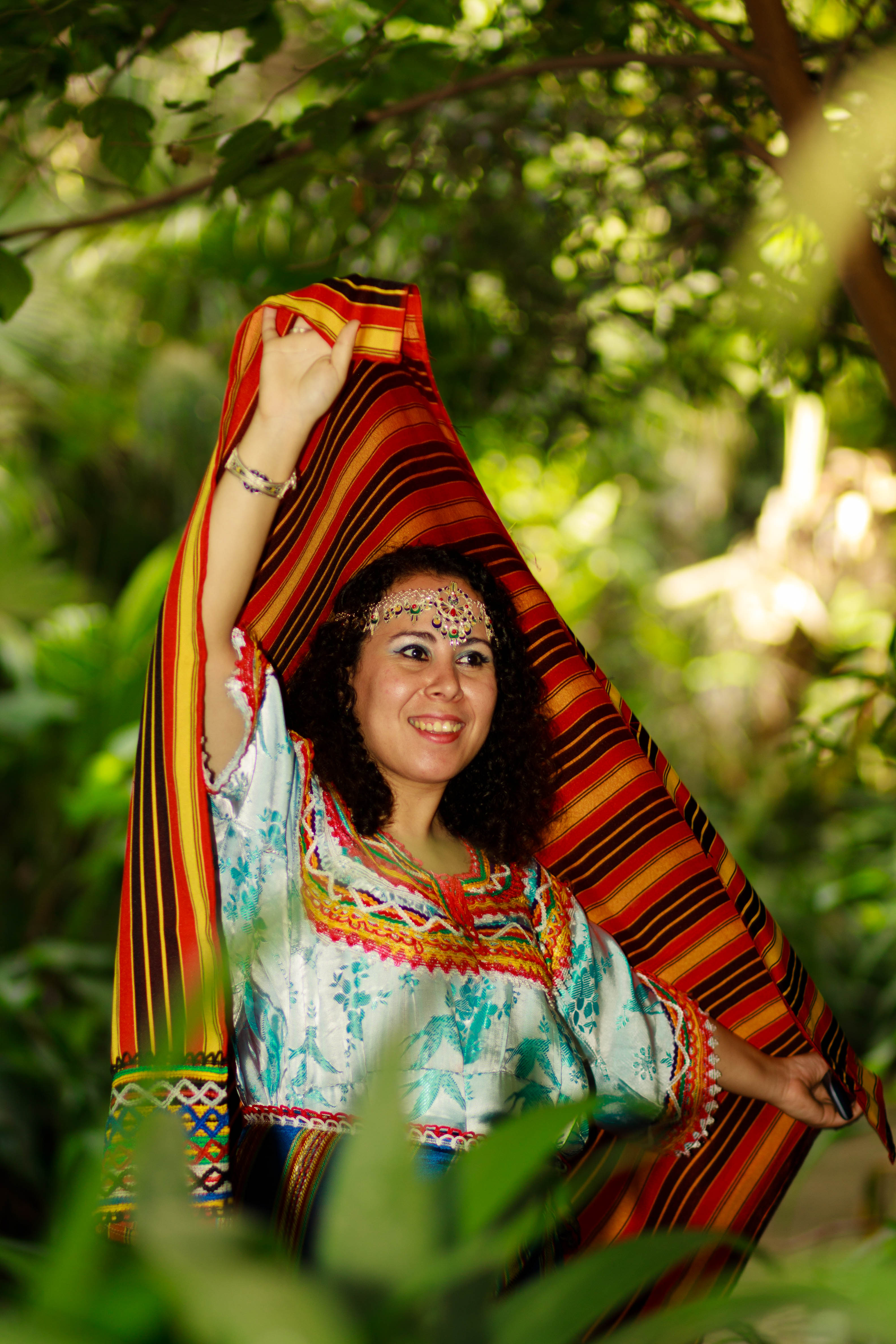 Kabyle woman at the Botanical Garden of Hamma (Algeria) This is an image of Cultural Fashion or Adornment from Algeria